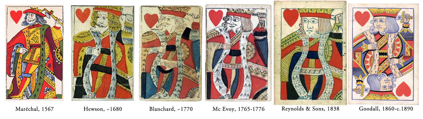 comparison of the King of Hearts of the Ruen pattern.